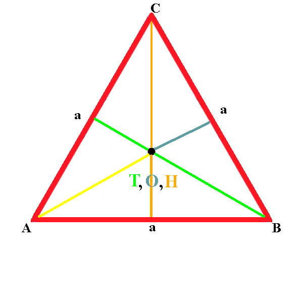 Triangle T,H,O